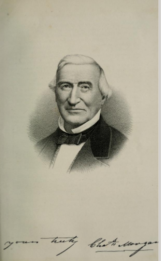 Portrait of Charles Morgan (1795-1878)